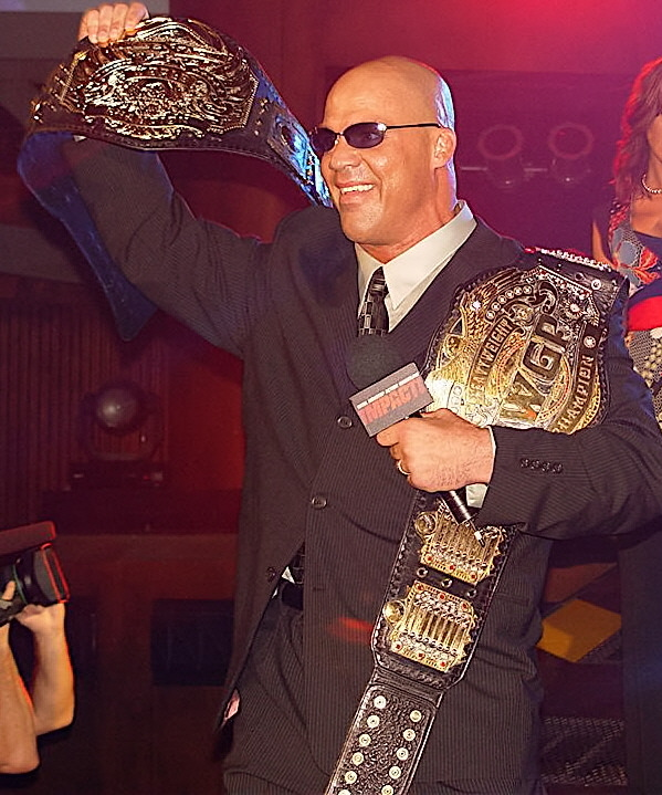 Kurt Angle at TNA Impact in Orlando